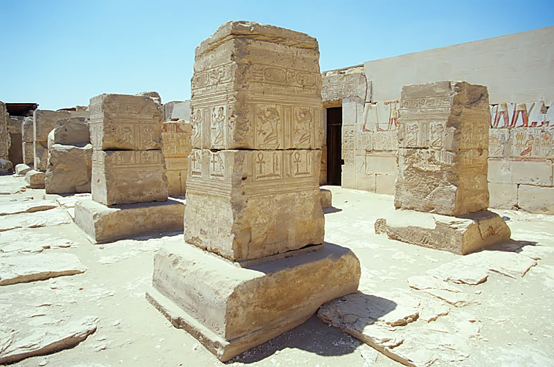 First pillared hall, Temple of Ramesses II, Abydos, Egypt